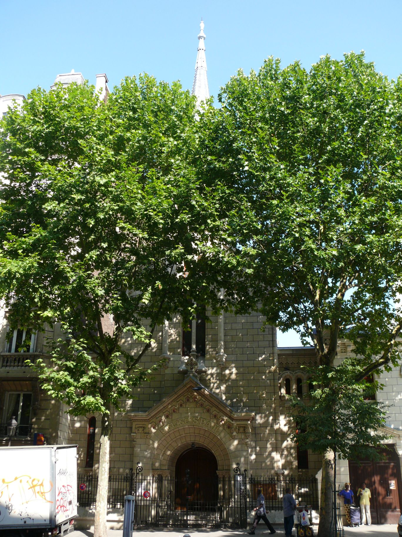 Saint-Paul de Montmartre's church, in Paris (Paris XVIII, France)